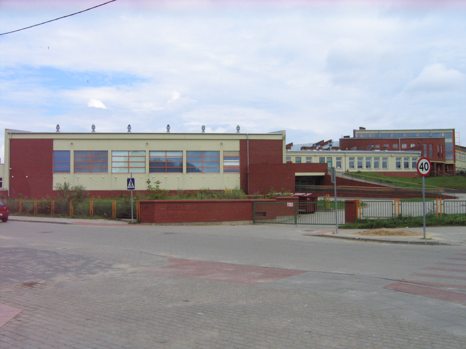 Gymnasium in Choroszcz